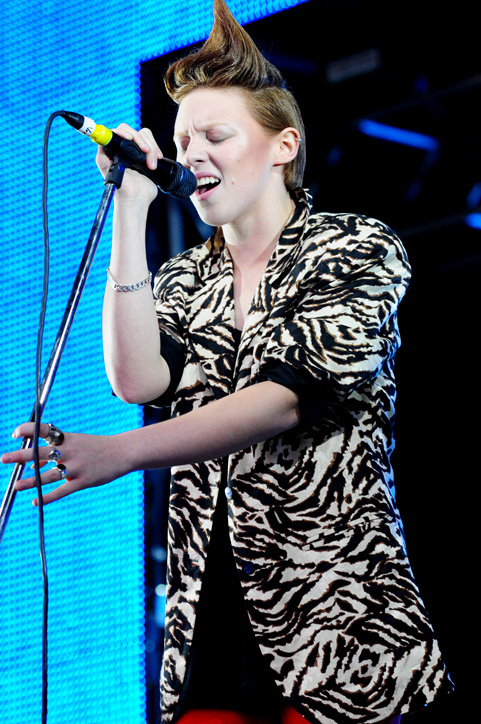 Parklife Festival 2009